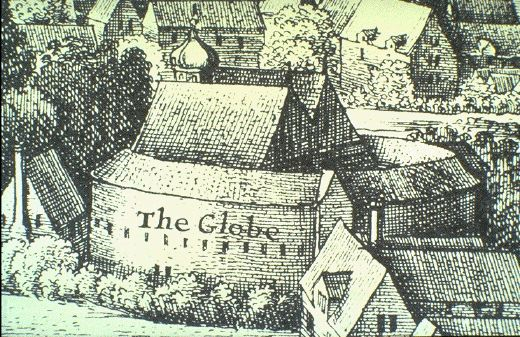 The Old Globe theatre — a print of the original theatre in London. Created in 1642 by Wenceslas Hollar for his Long View of London. The label "The Globe" has been superimposed; in the original drawing, the building was mistakenly labelled "beere baiting".